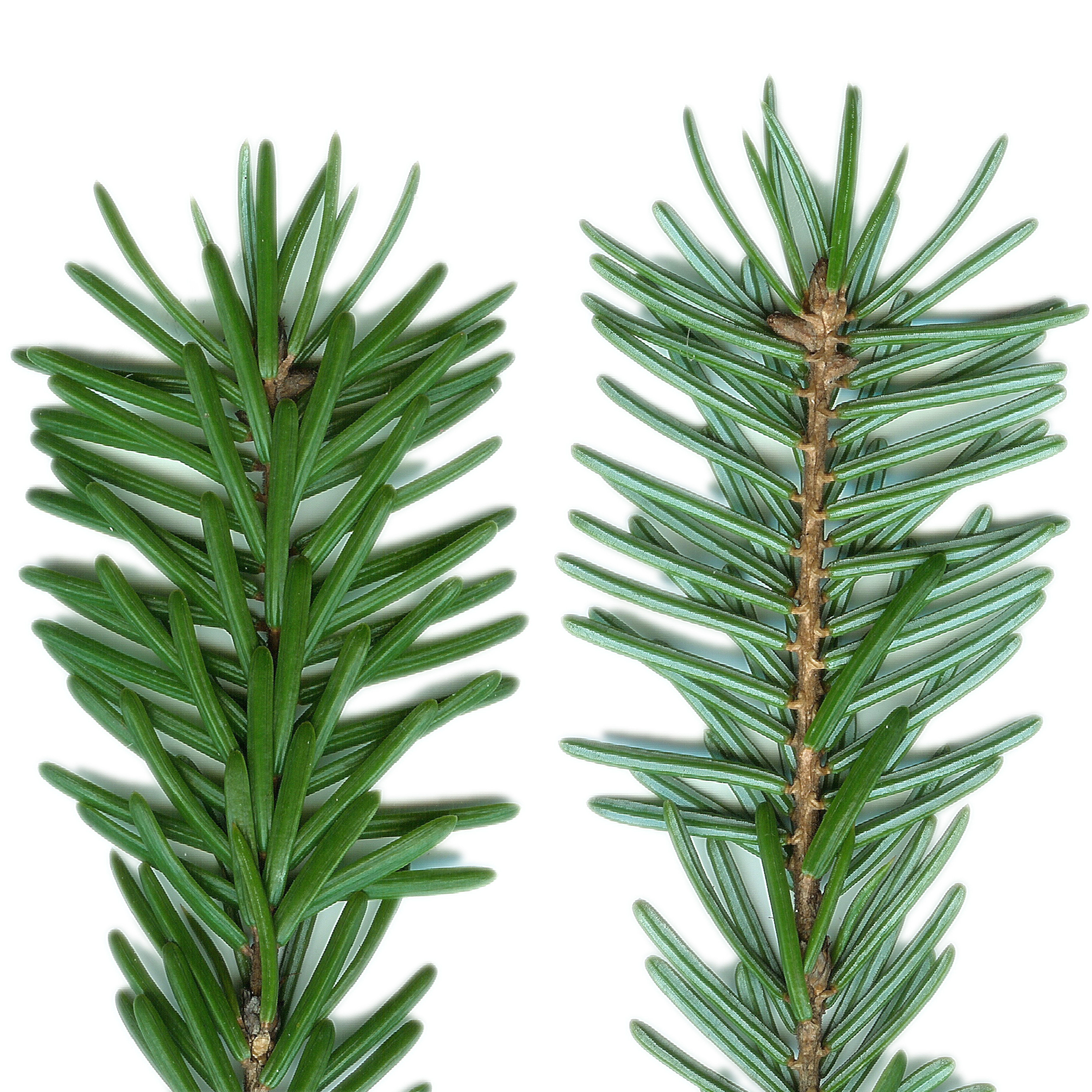 Needles and buds of Serbian spruce (Picea omorika) adaxial and abaxial sides (scan: Mihailo Grbić)